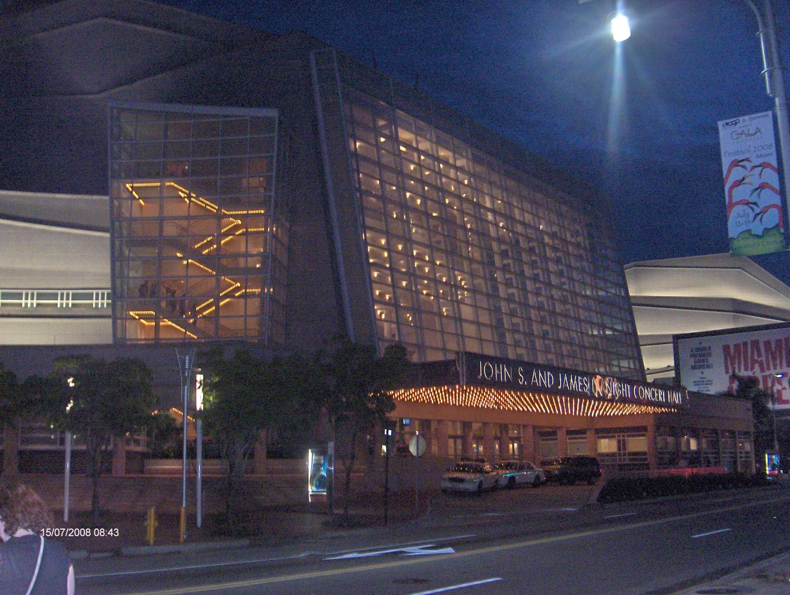 This is a photograph of John S. and James L. Knight Concert Hall in Miami, taken in 2008